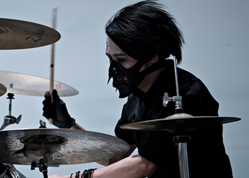 dani from chthonic drumming